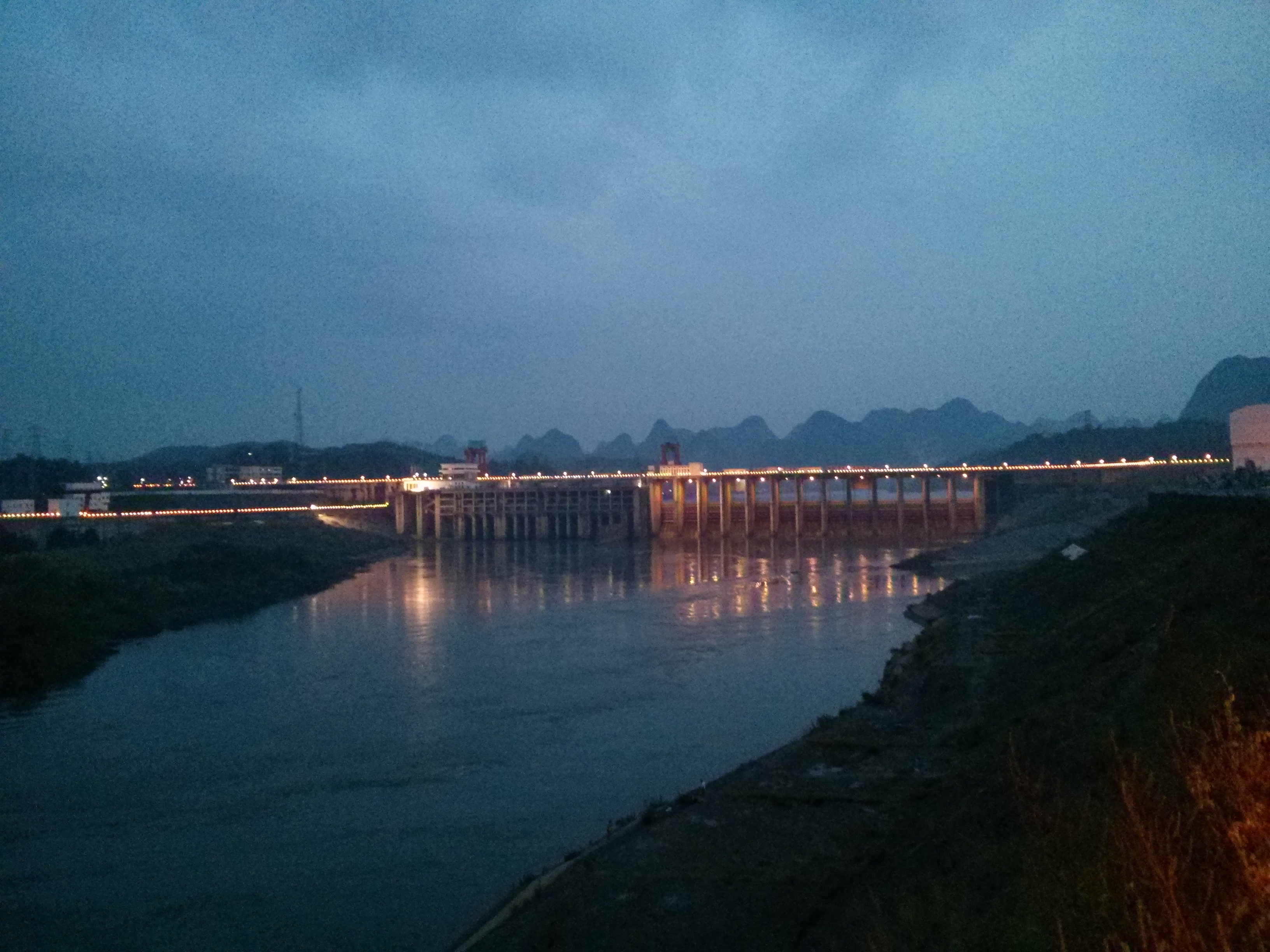 Dua`hua_dam,Hechi,Guangxi